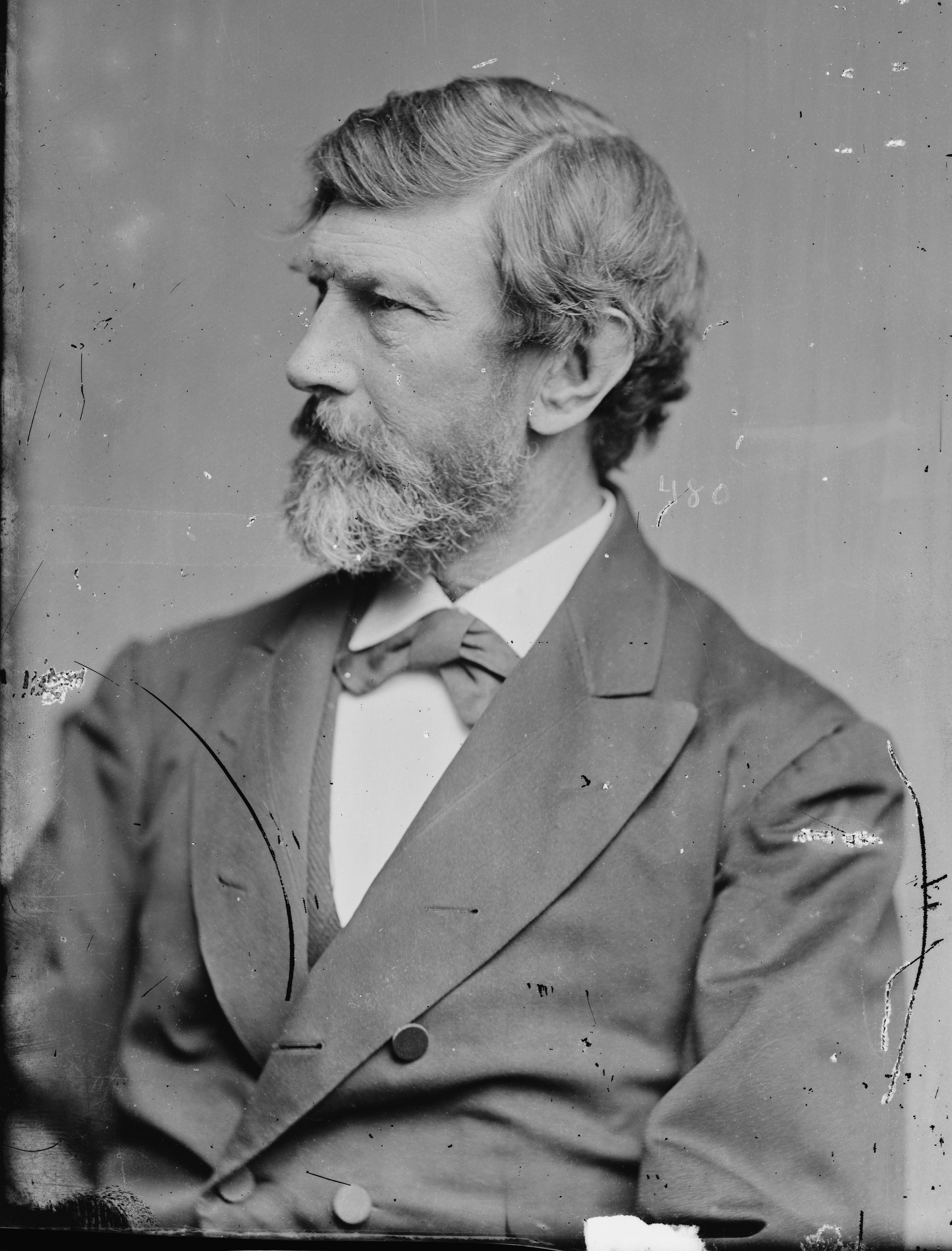 William D. Kelley. Library of Congress description: "Kelley, Hon. W.W.D. of PA."